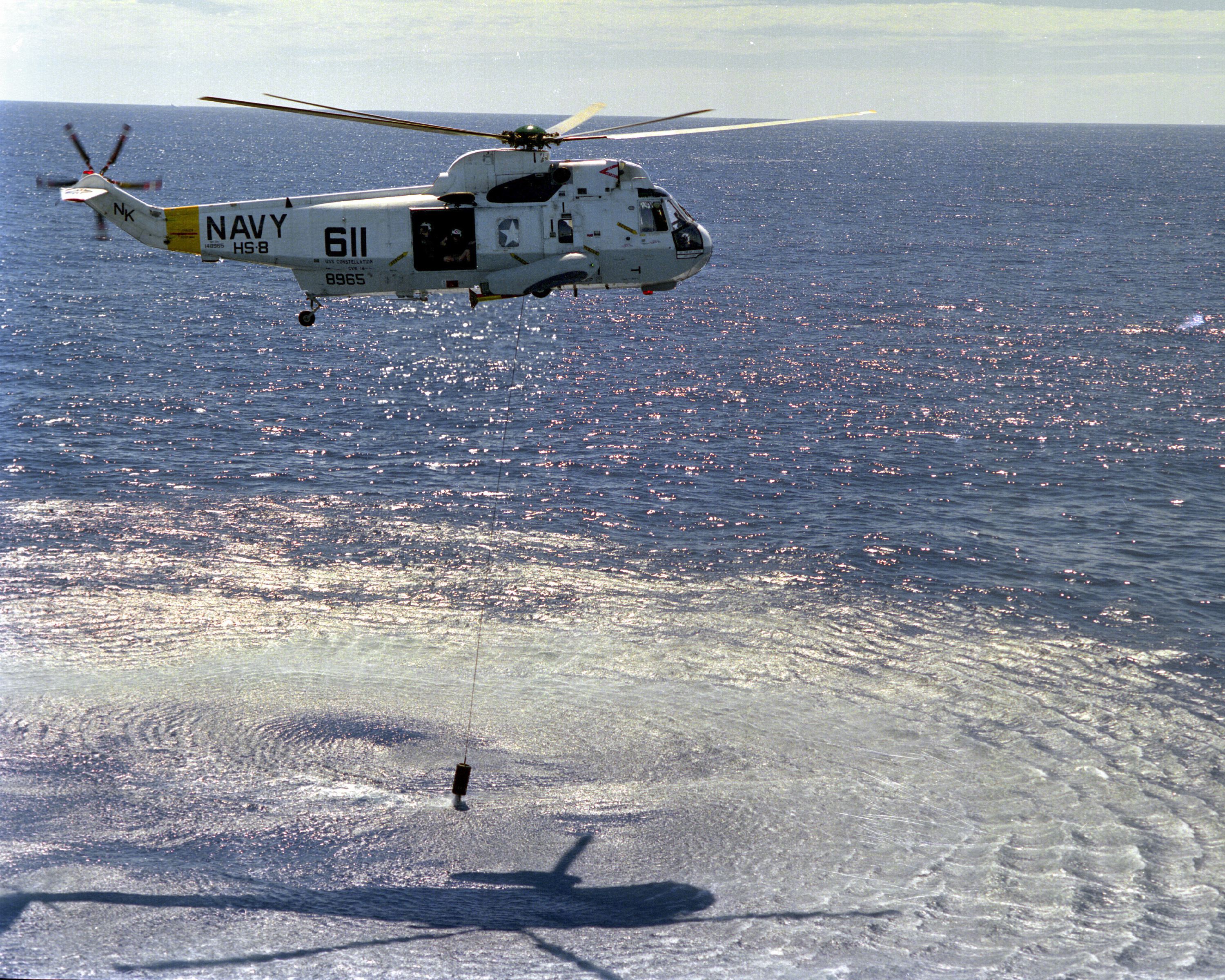 A helicopter anti-submarine squadron HS-8 Eightballers Sikorsky SH-3H Sea King helicopter (BuNo. 148965) lowers an AQS-13 dipping sonar over the ocean during a training mission. HS-8 was based aboard the aircraft carrier USS Constellation (CV-64) as part of Carrier Air Wing Fourteen (CVW-14) for a deployment to the Western Pacific and the Indian Ocean from 1 December 1988 to 1 June 1989.